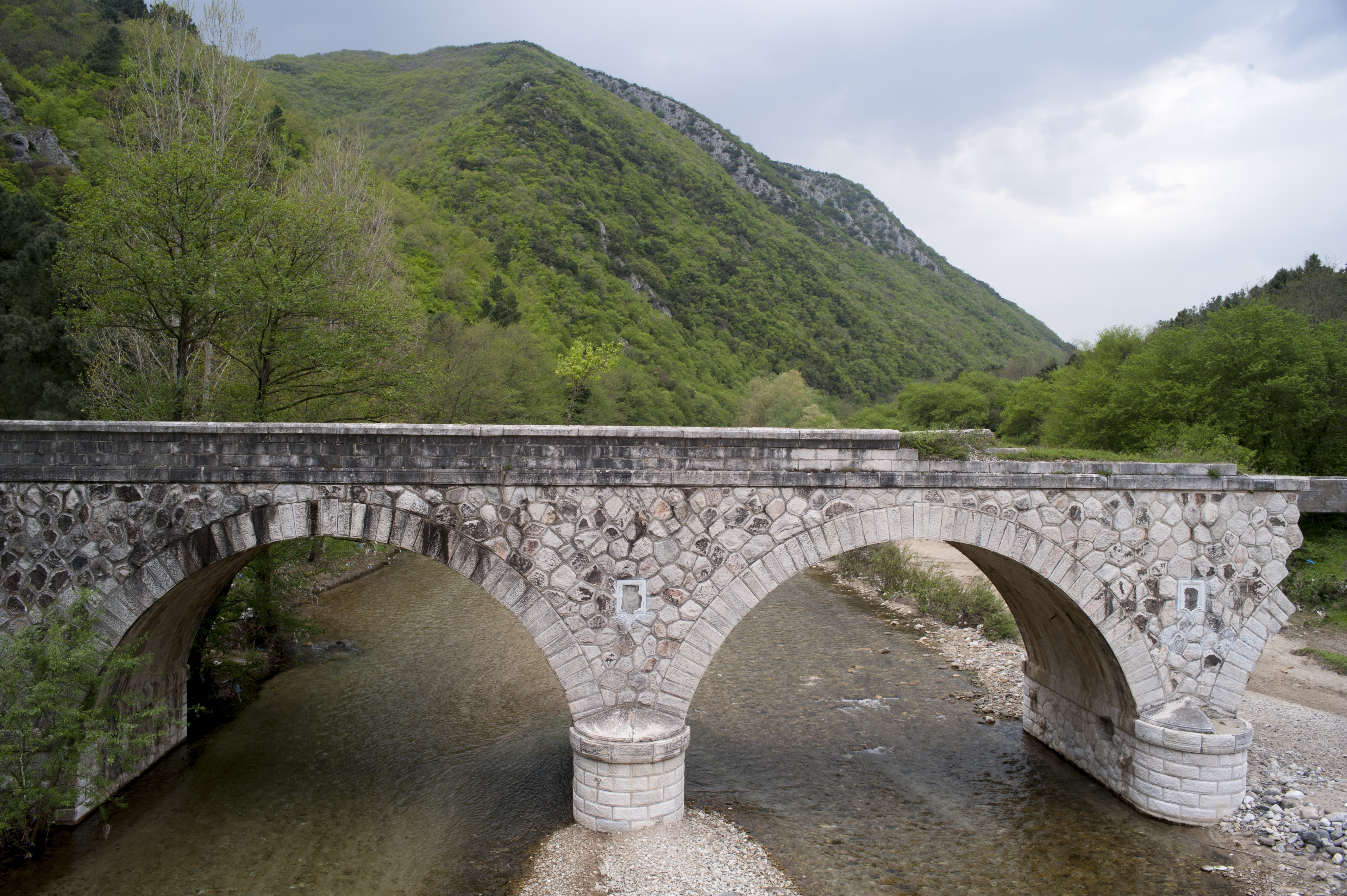 Ottoman bridge (1904) 4rth km Xanthi-Stavroupoli, West Thrace, Greece